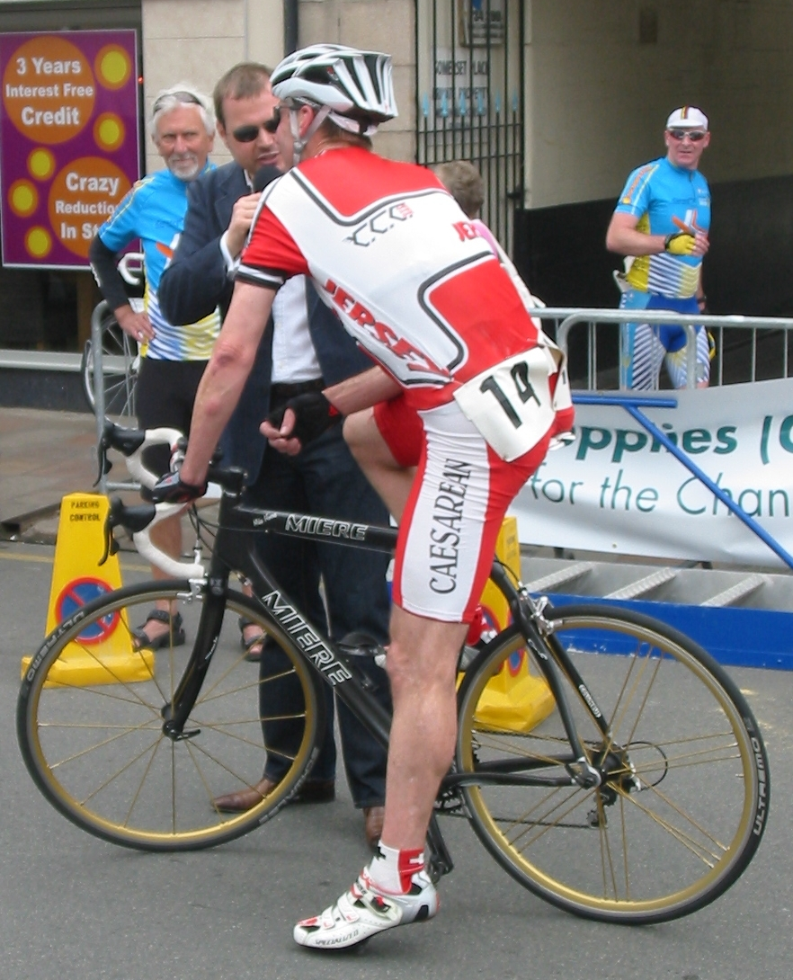 Jersey Town Criterium bicycle races, Saint Helier, Jersey, 24 May 2009